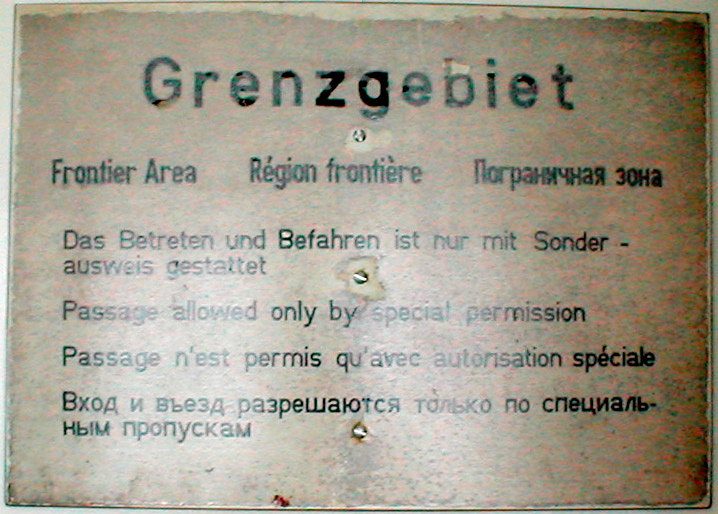 Warning sign at East German Border (westbound). Original size 70 cm x 50 cm.